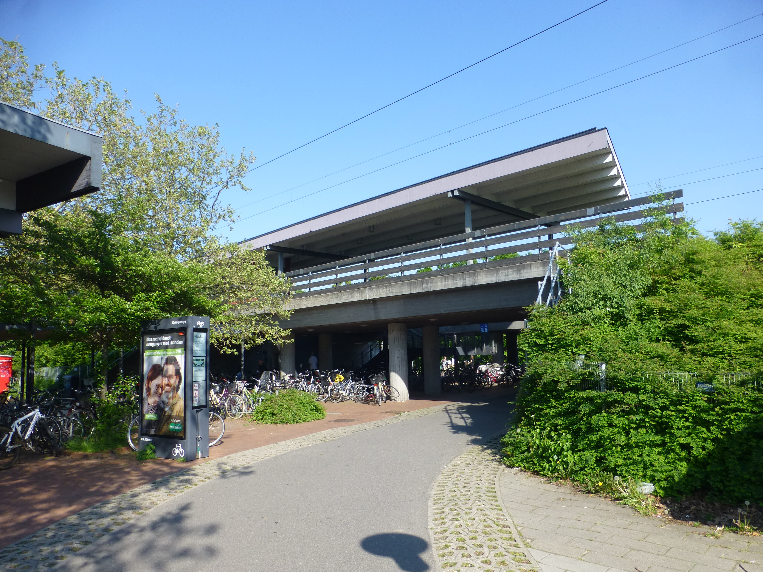 Greve Station, a S-train station on Køge Bugt-banen between Copenhagen and Køge in Denmark.